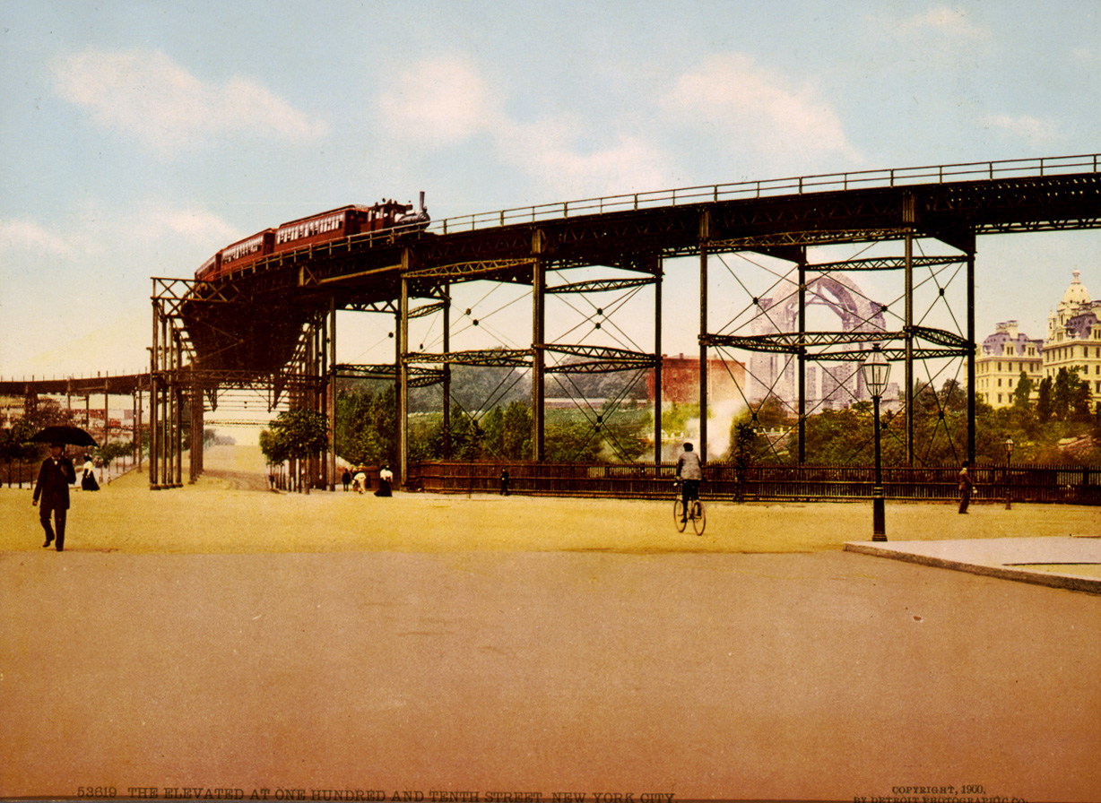 The Elevated at One Hundred and Tenth Street, New York City